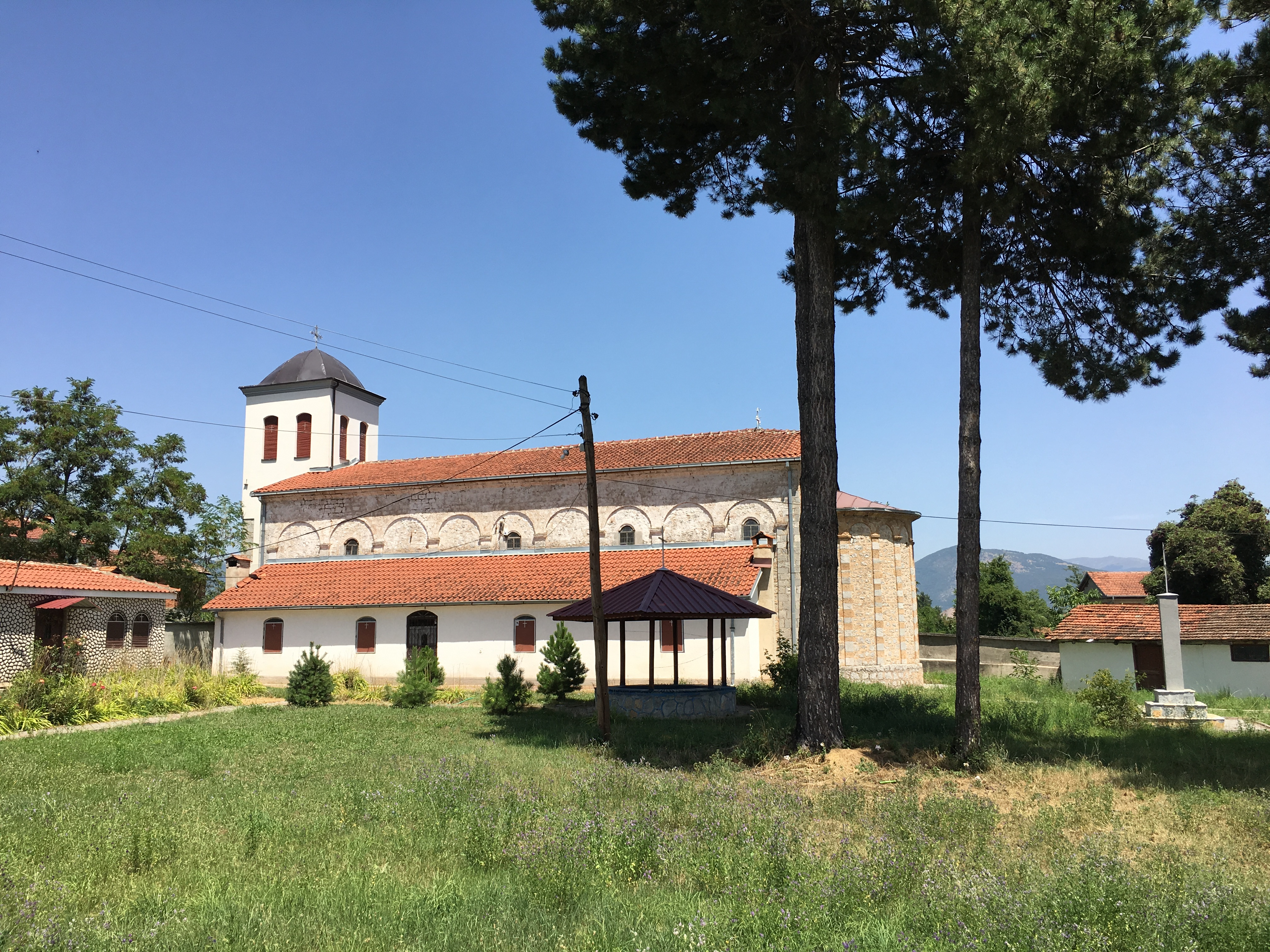 Dormition of the Theotokos Church in the village of Dolna Belica